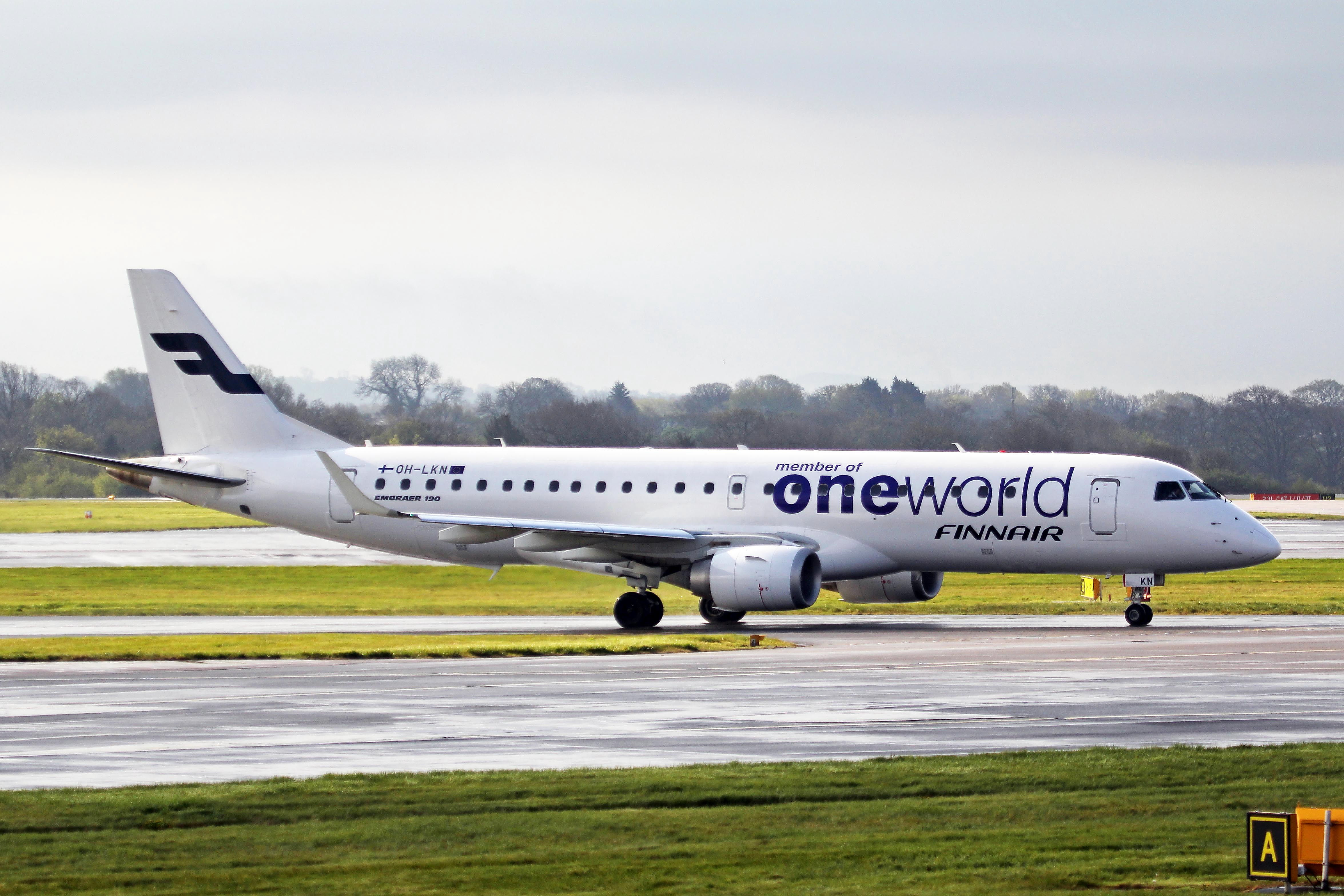 'OneWorld' titles.